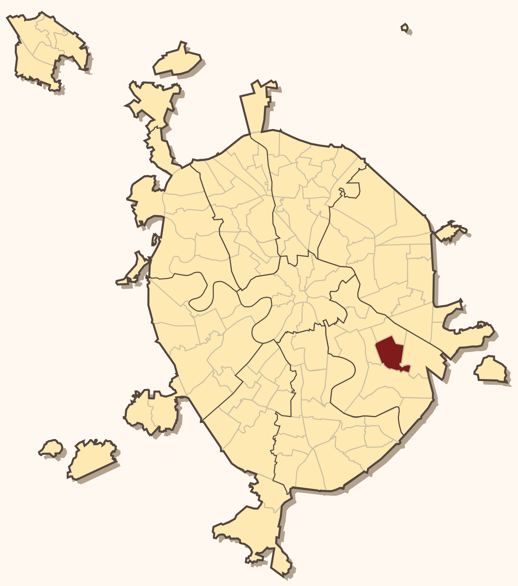 Moscow districts map